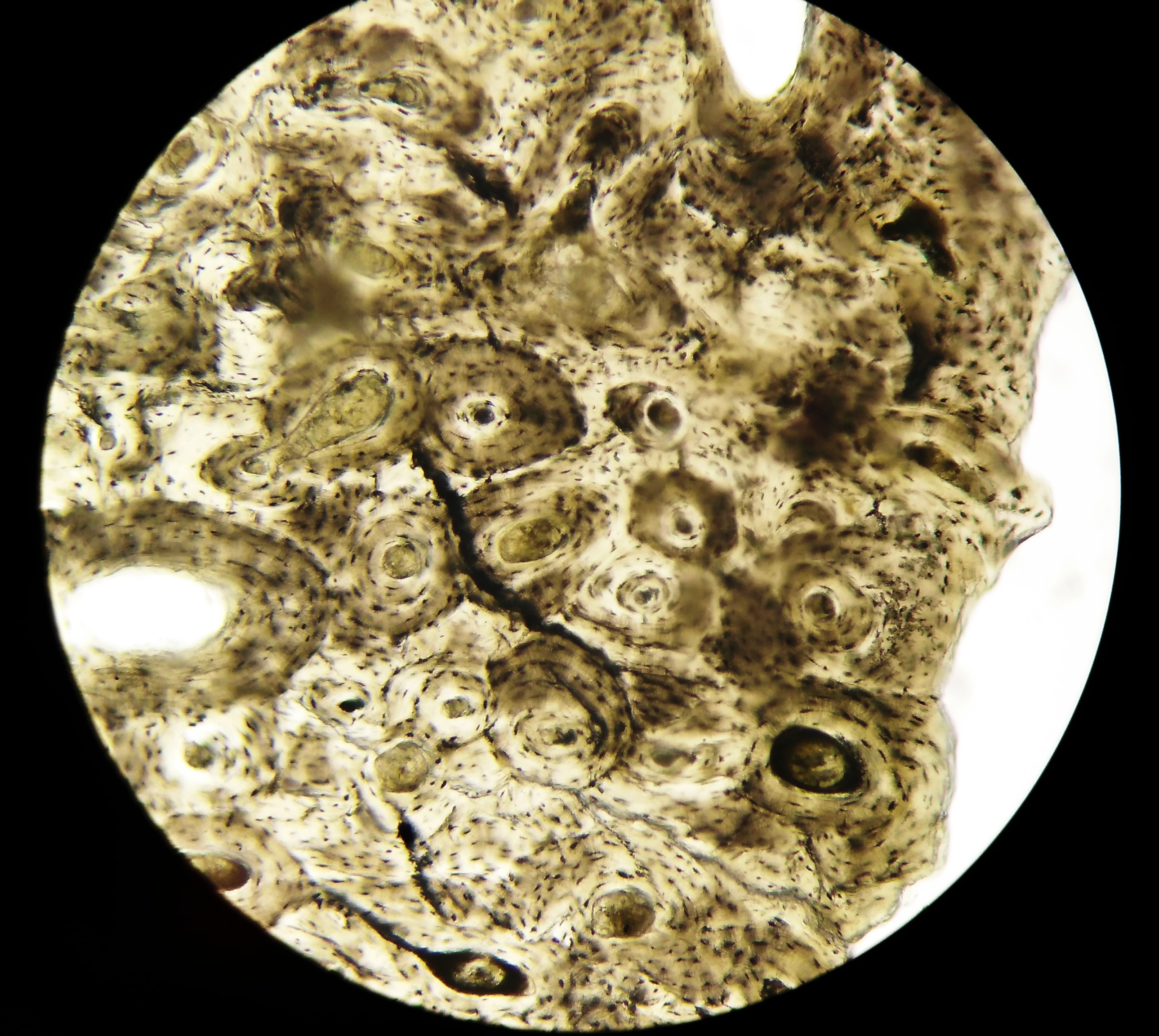 Compact bone